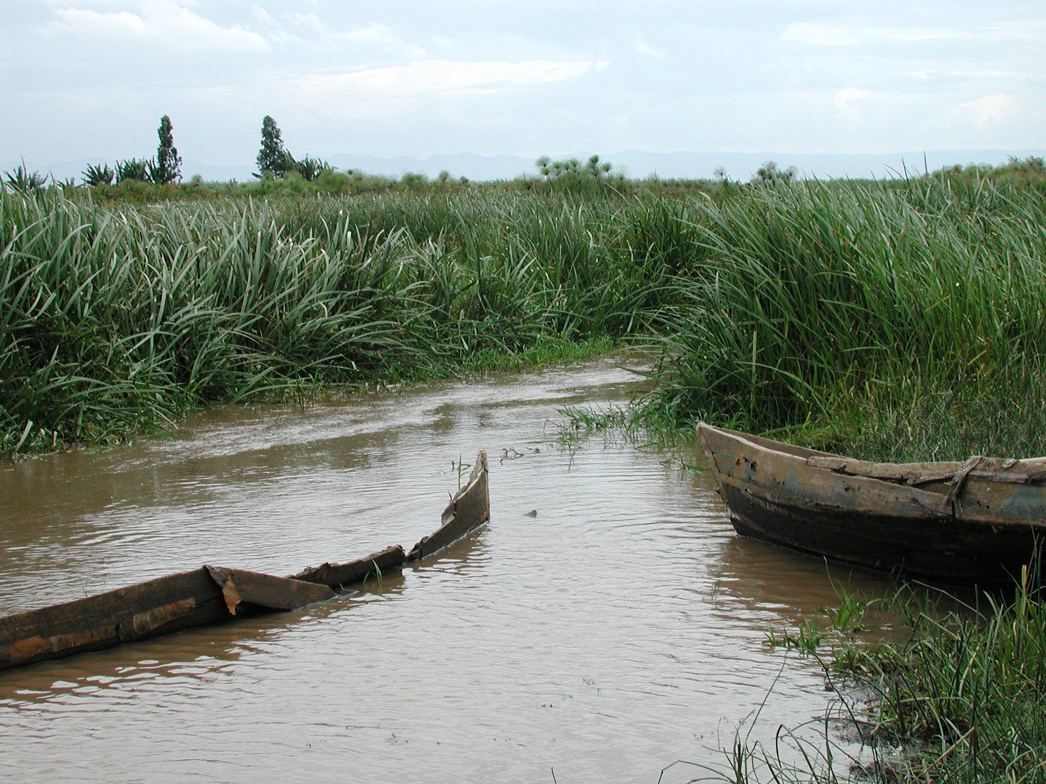 Nyando River in wetland, Kenya